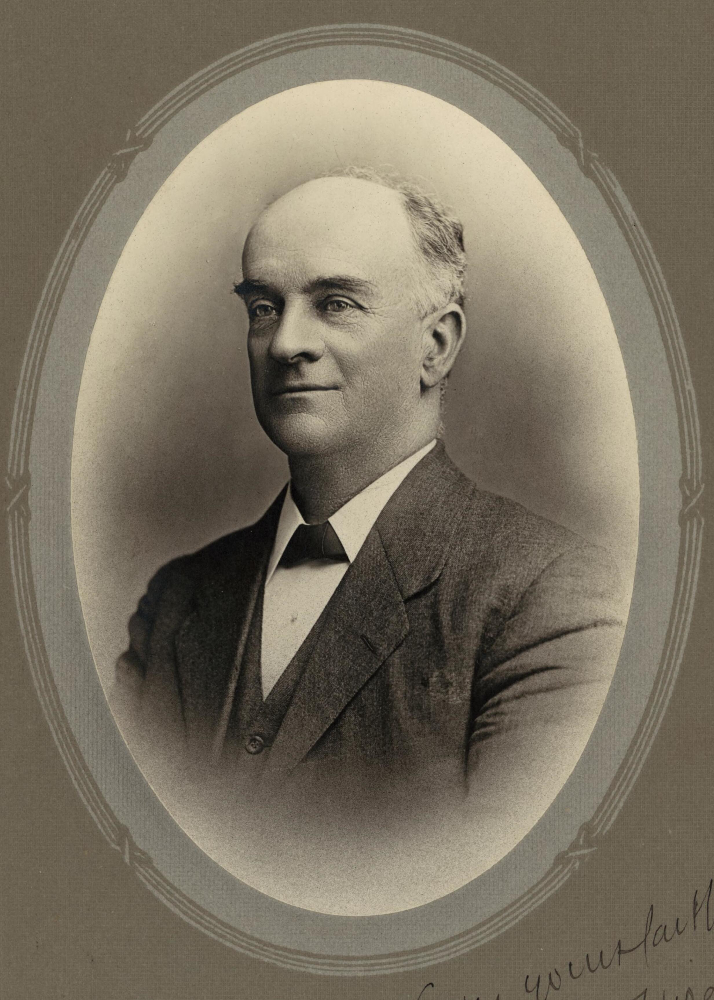 Australian politician George Wise